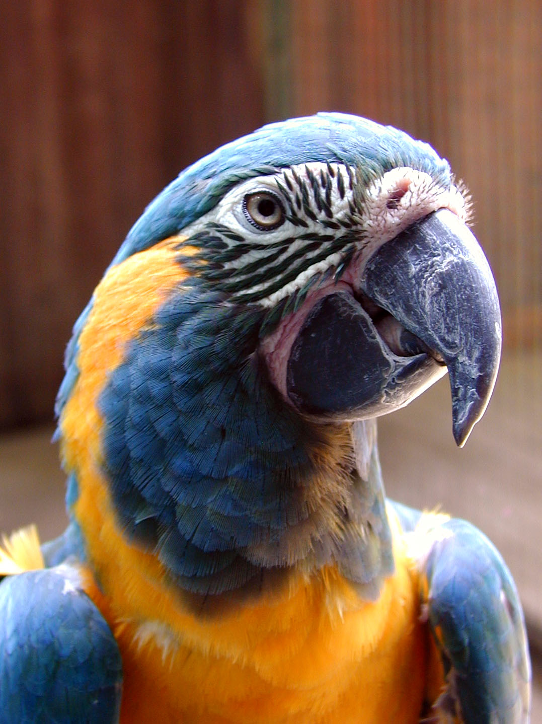 Blue-throated Macaw; photograph shows upper body of pet parrot.